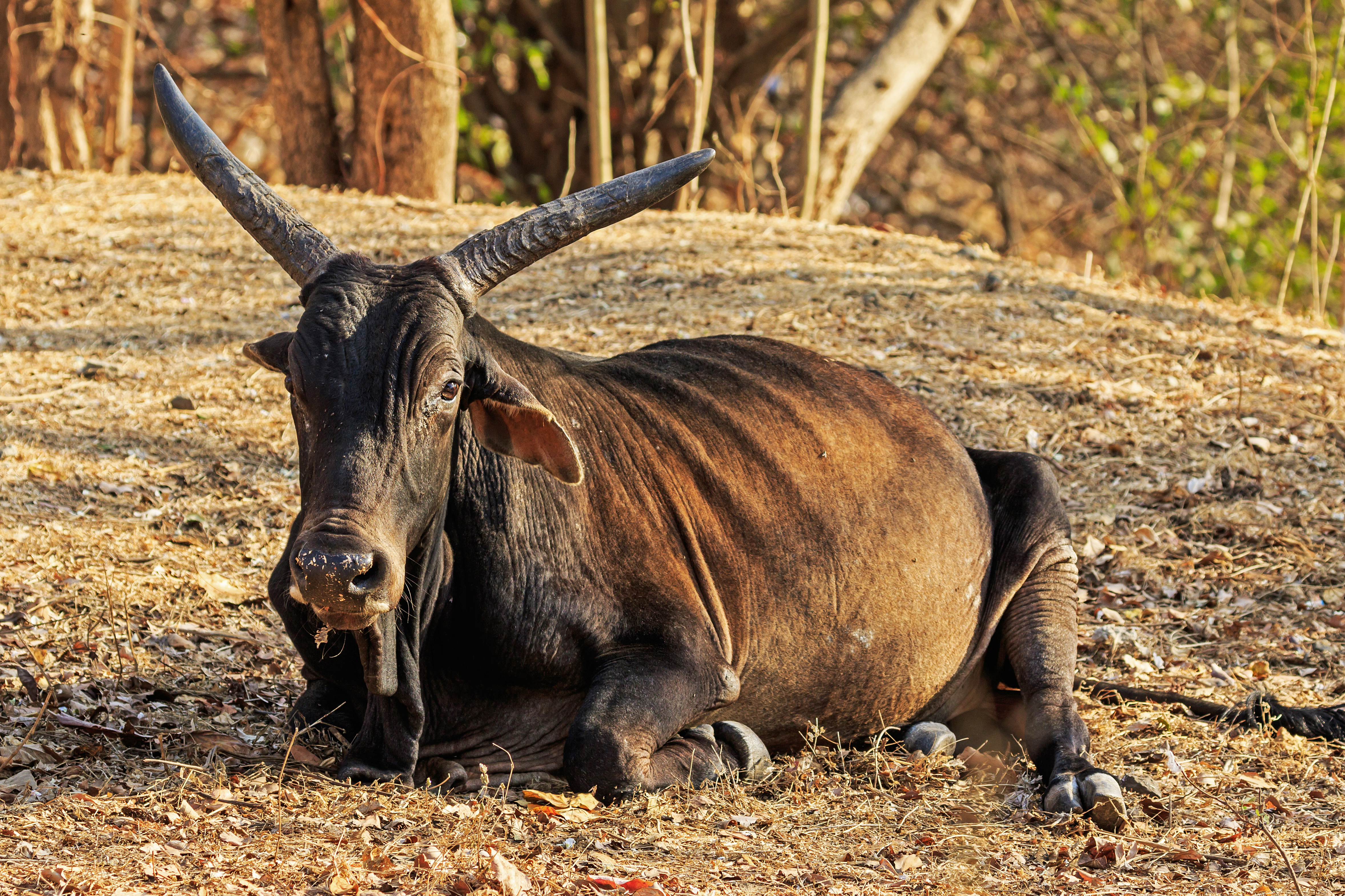 A cow on Cannon Hill on Elephanta Island, Maharashtra, India.